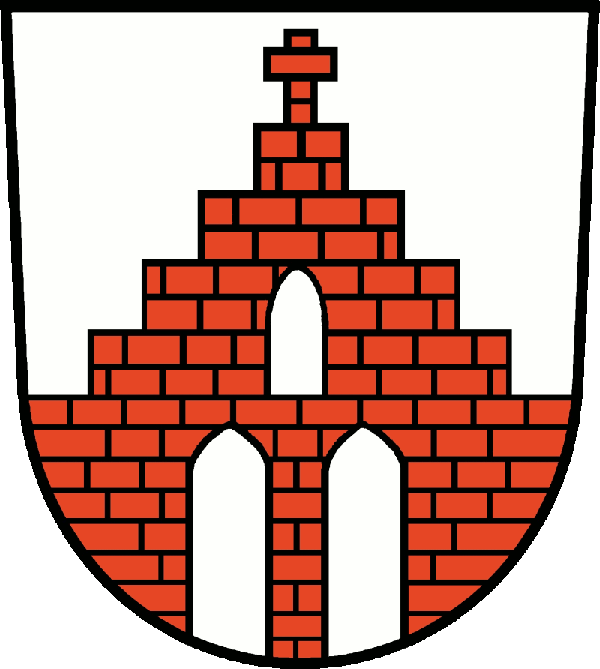 Coat of Arms of Plattenburg